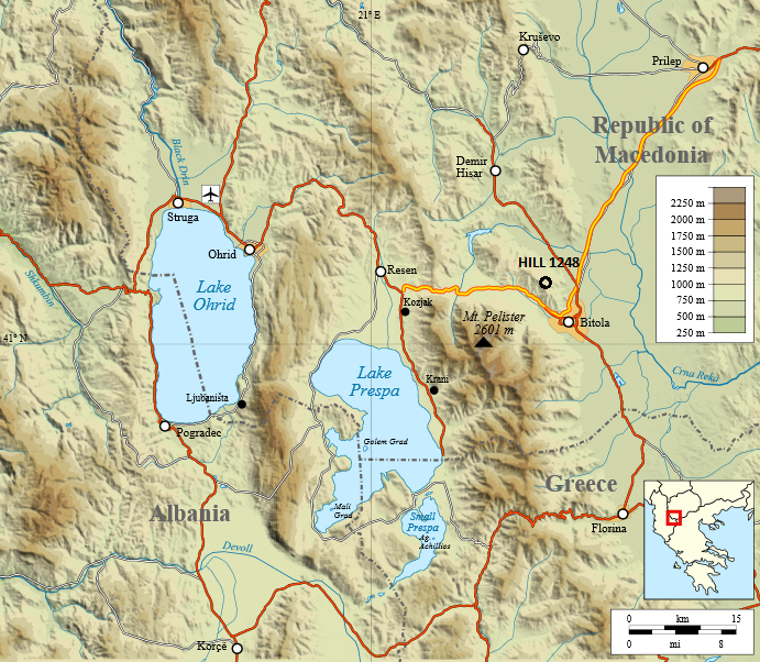 The location of Hill 1248 and Pelister mountain range and Monastir (Bitola) in Macedonia